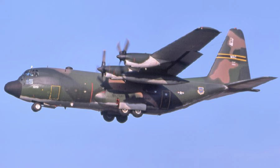 7405th Operations Squadron C-130E 62-1819 coming in for a landing at Templehof Central Airport, West Berlin